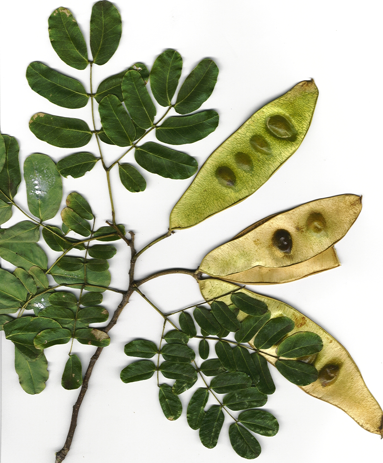 Albizia lebbeck (leaves and fruit). Location: Maui, Happy Valley